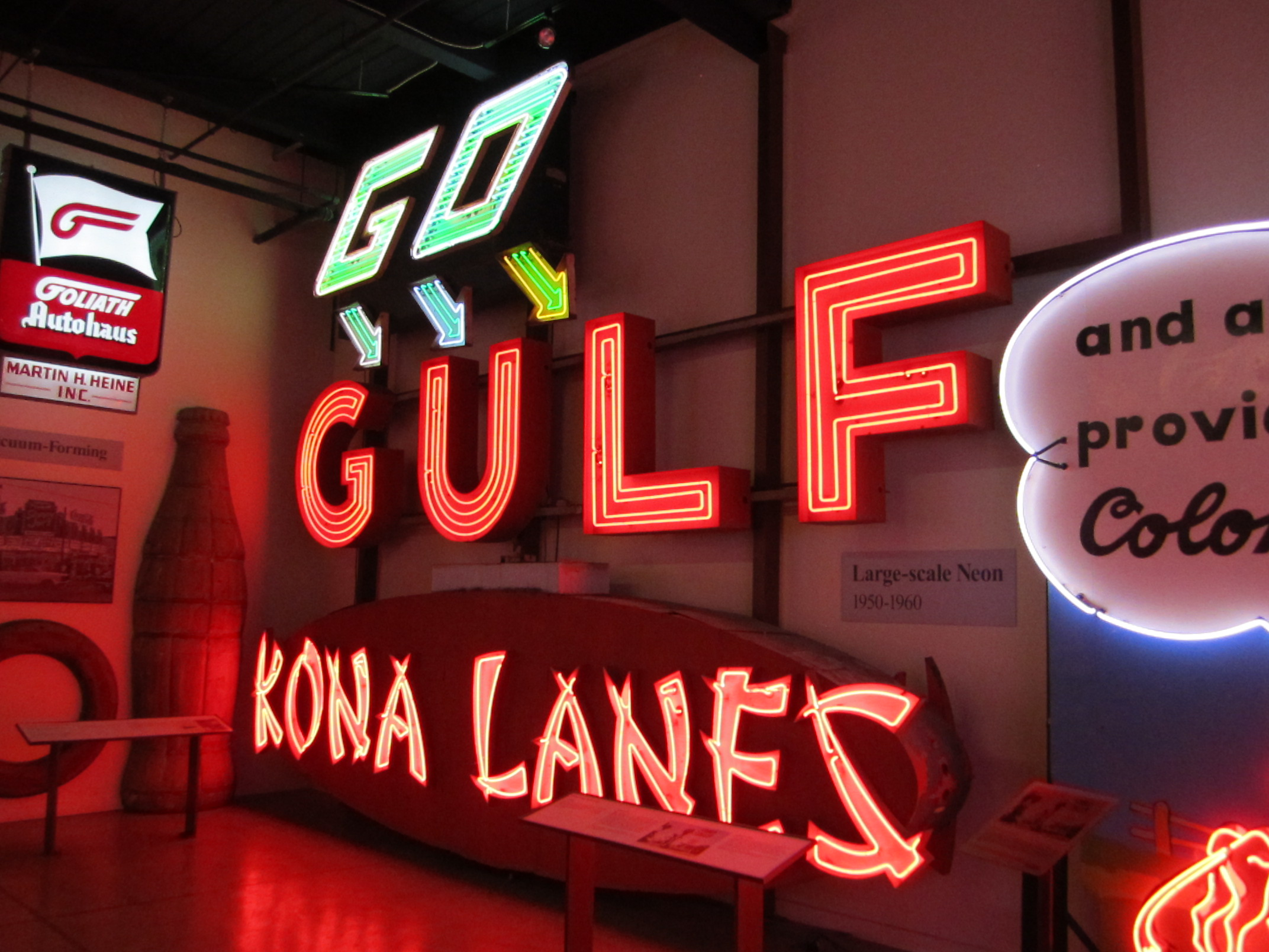 Kona Lanes sign at its permanent location within the American Sign Museum, taken by Tod Swormstedt, January 2014